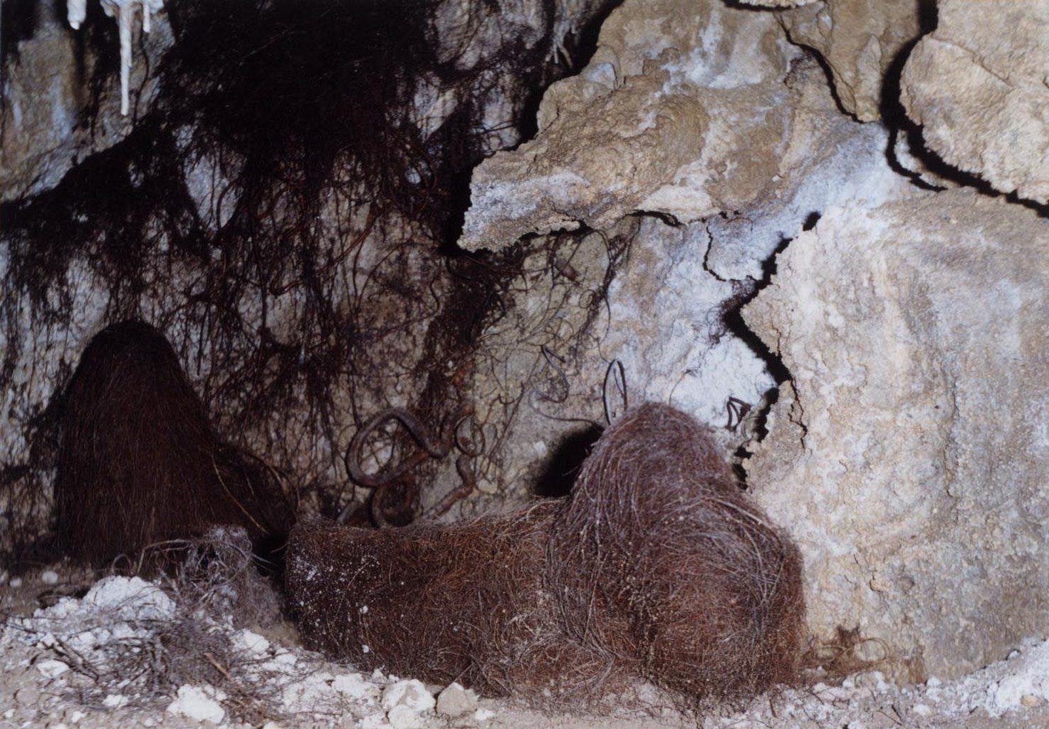 Root stalagmites in Döme Cave, Balatonederics, Hungary.